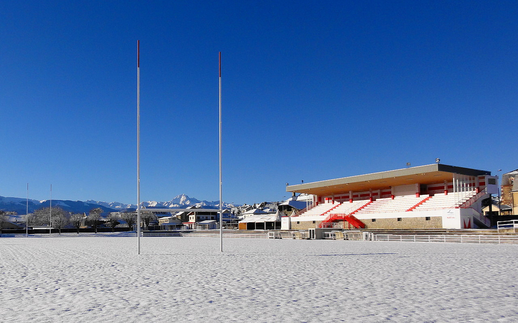 Lannemezan Rugby Stadium, Hautes-Pyrénées, France